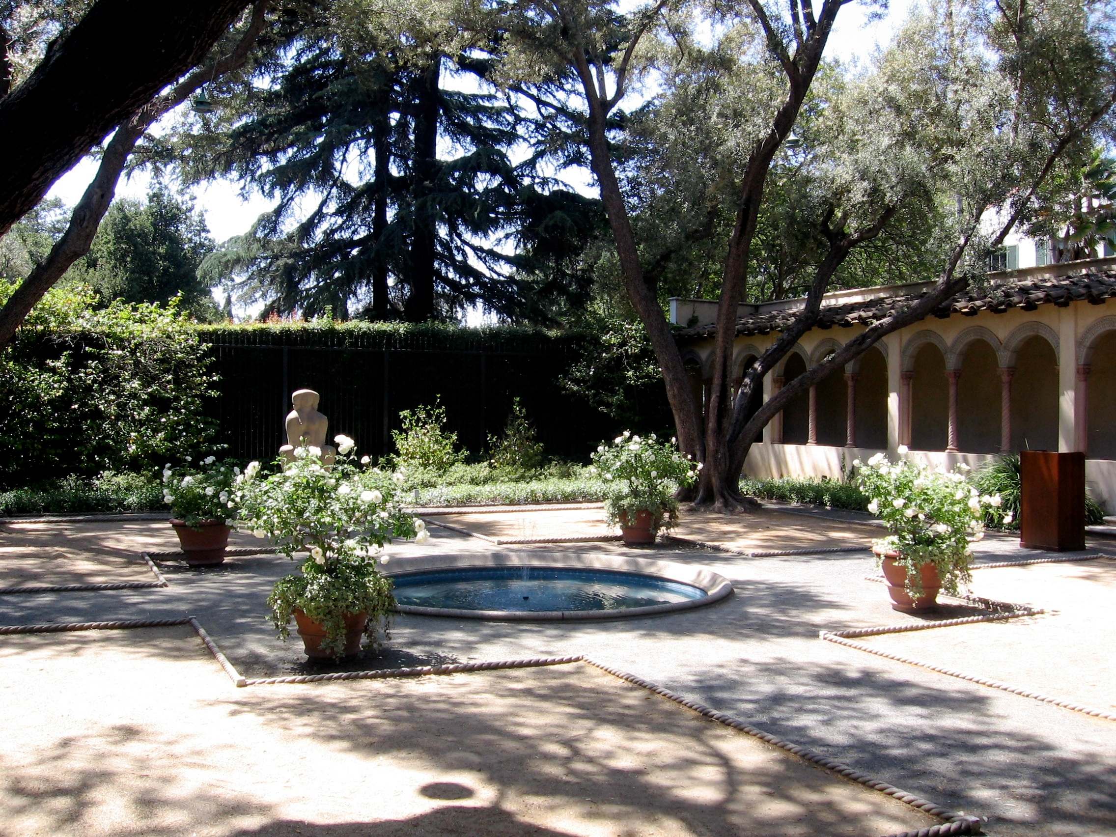 Margaret Fowler Garden